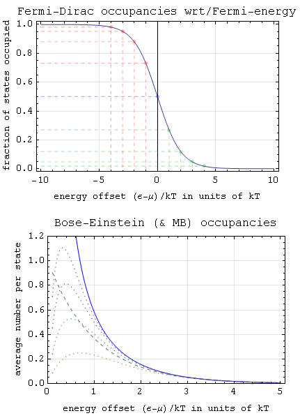 Quantum occupancy nomograms, where for example when (ε-μ) = kT we find that fFD = 1/(e+1) ≈ 0.269, fMB = 1/e ≈ 0.368, and fBE = 1/(e-1) ≈ 0.582 so that for a given value of (ε-μ)/kT, as expected, fFD ≤ fMB ≤ fBE. At top: The dashed lines denote filling fractions for Fermi-Dirac (FD) states whose energy ε is offset by integer-multiples of kT from the Fermi chemical-potential μ. In the FD case, the average number of particles per state and the fraction of states occupied are one and the same. At bottom: The "low-density" Maxwell-Boltzmann (MB) approximation is a dashed grey curve which neglects chemical potential μ altogether, and it is also the fraction of Bose-Einstein (BE) states occupied. From bottom up the dotted curves denote contributions to the BE particle-average from those occupied energy-levels which have a population of one, two, three and four particles (or excitations), respectively.